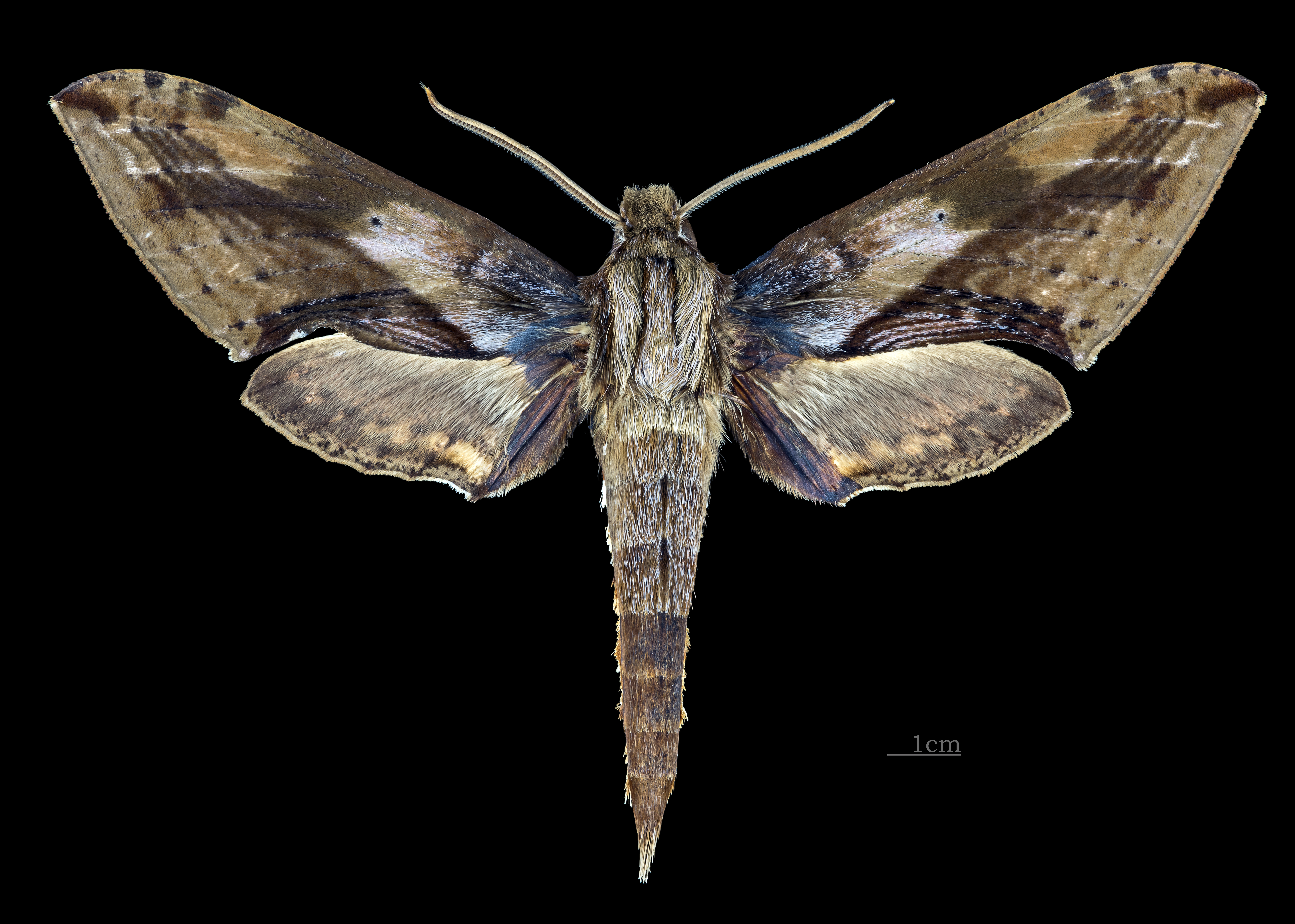 Xylophanes rhodina - Dorsal side Collection of the Mathematician Laurent Schwartz